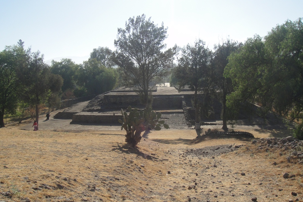 Huexotla, Structure 2 viewed from 1